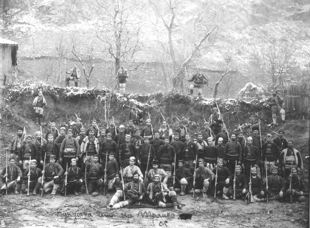 Kukush Cheta of IMARО voevoda Trayko Gyotov.